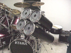 Tube drums "octobans" by Roger Arrick